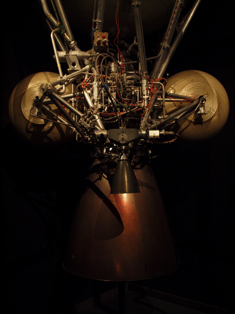 The third stage rocket for the Europe 2 satellite launcher - this German rocket was part of the first all European project to launch satellites into orbit. The British Blue Streak rocket provided the first stage with a French second stage. These were fitted beneath Astris with the satellite above it. Once out of the atmosphere, Astris provided the power to place the satellite in the correct orbit. The main fuel tank is at the top. The fuels were mixed together under pressure in the cone-shaped chamber at the bottom, igniting on contact with each other. The two small control engines at the front and back, allowed changes of direction or extra thrust. Several failed launches, escalating costs, and doubts about the project undermined confidence. The British Government withdrew in 1969 and the project was abandoned in 1973. This is my own work, also hosted on my Flickr page This rocket was built for test purposes, was first test fired in October 1968 and underwent several modifications during its life. It was also used for investigations into launch failures